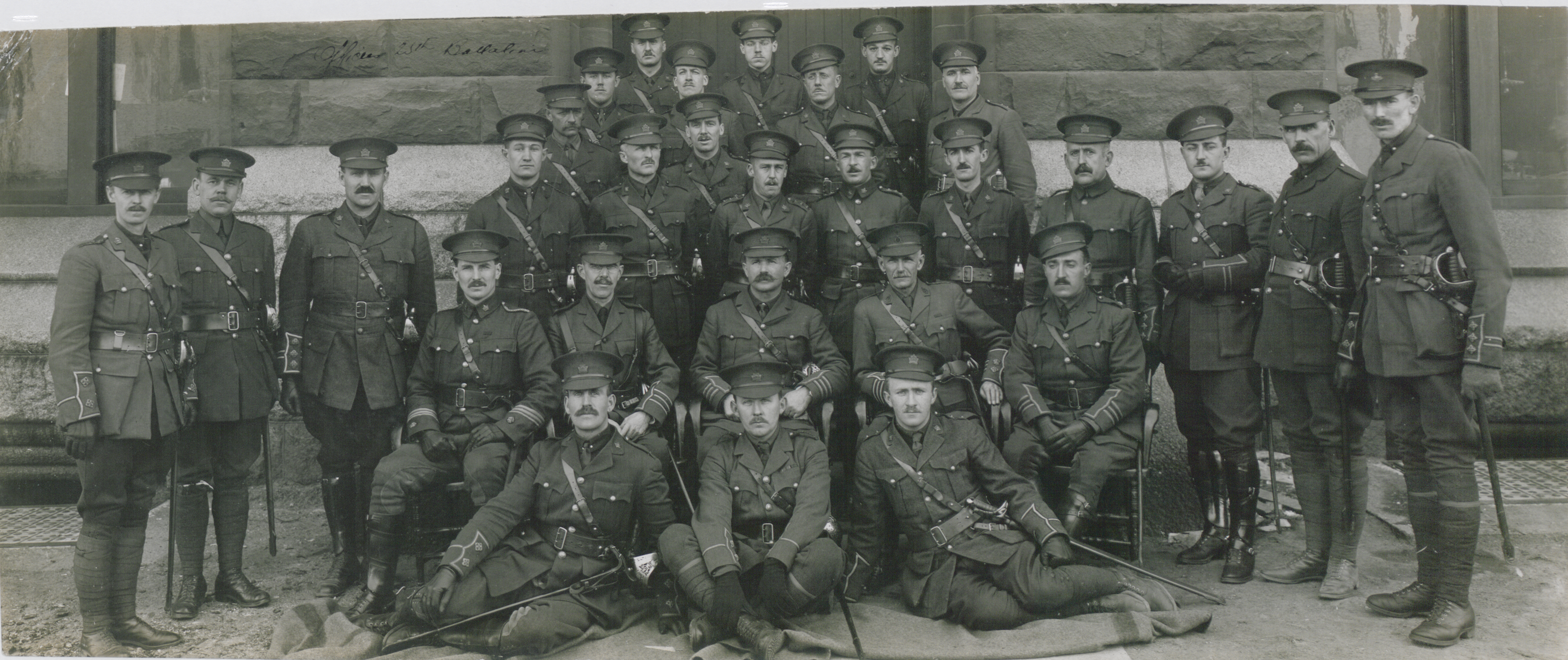 Original caption: “Officers of the Nova Scotia 25th Battalion.”